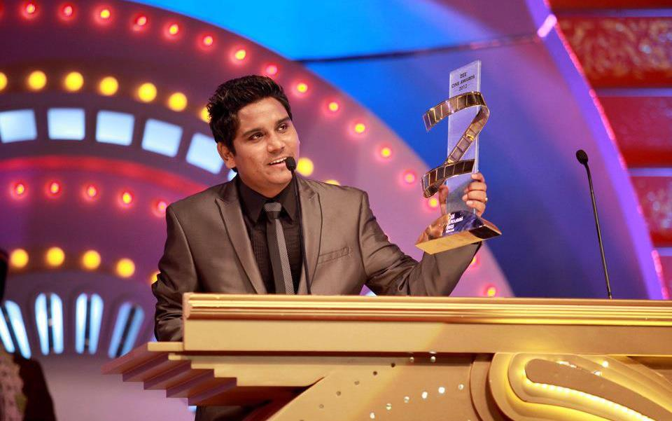 Kamal Khan winning Zee Cinema FilmFare Best Debut Singer Male Award for the song Ishq Sufiyana.